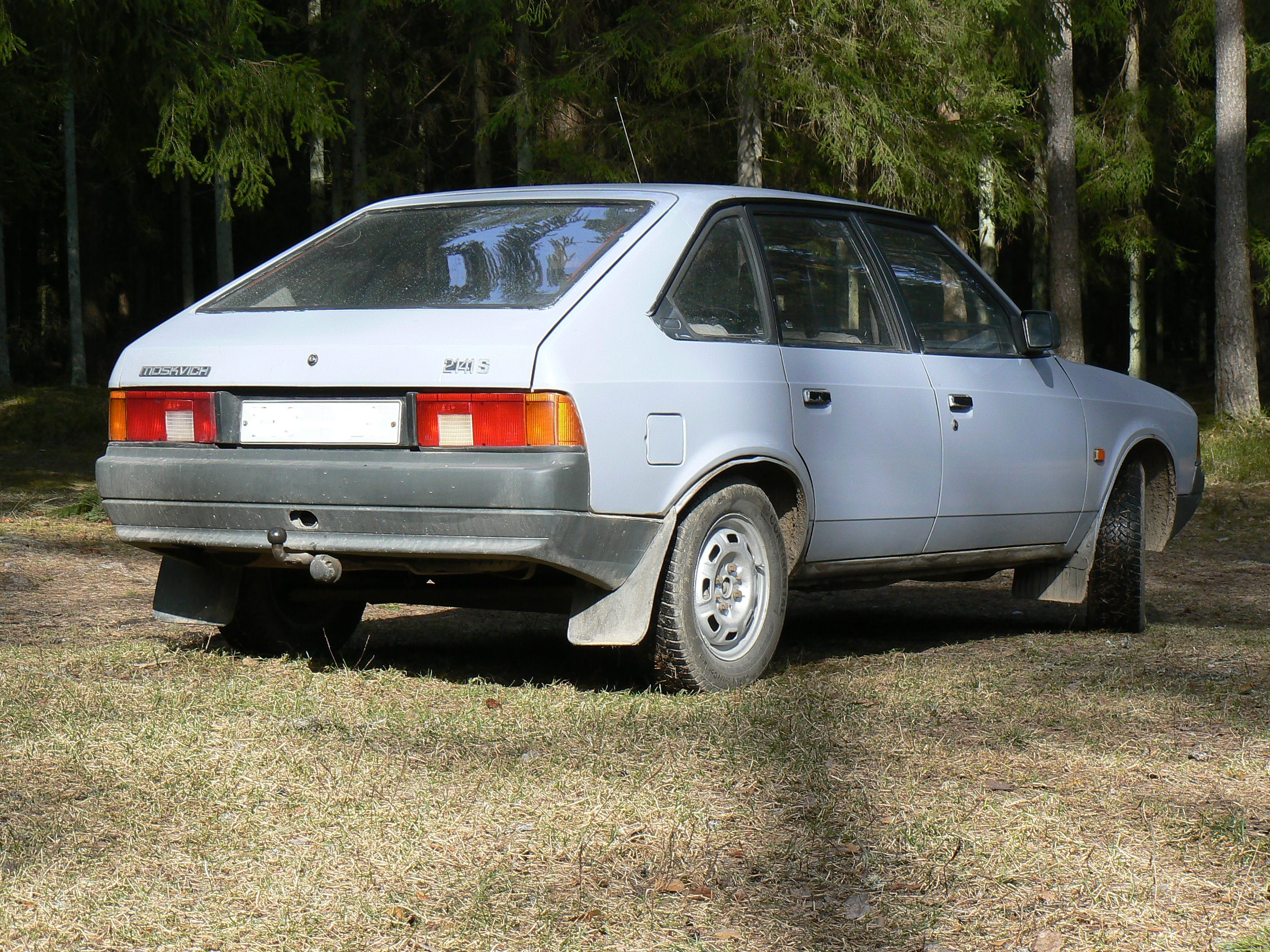 AZLK(ALEKO)-2141S "Moskvich" (M-21412). ALEKO from Autoplant of Lenin`s Komsomol. M-21412 is universal abbreviation of model.